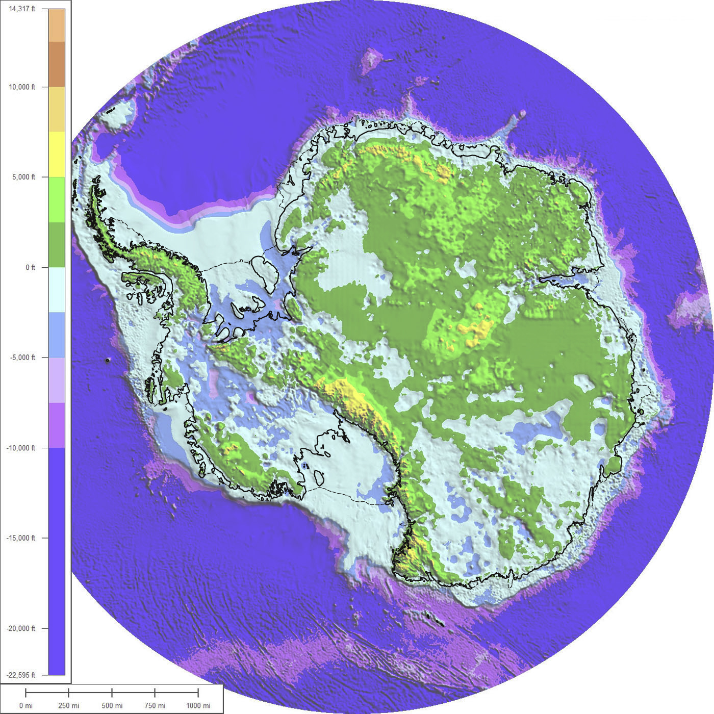 The above map shows the subglacial topography and bathymetry of Antarctica. As indicated by the scale on left-hand side, the different shades of blue and purple indicate parts of the ocean floor and sub-ice bedrock, which are below sea level. The other colors indicate Antarctic bedrock lying above sea level. Each color represents an interval of 2,500 feet in elevation. Thick black line: outline of Antarctica, thin dotted line: ice shelf. Map is not corrected for sea level rise or isostatic rebound, which would occur if the Antarctic ice sheet completely melted to expose the bedrock surface.